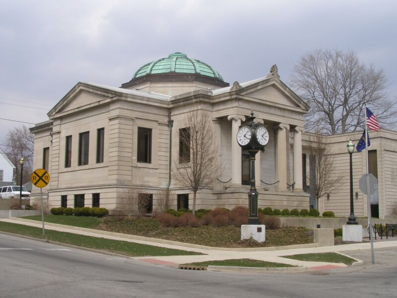 Public Library in Wabash, Indiana built with a grant from the Carnegie Foundation.